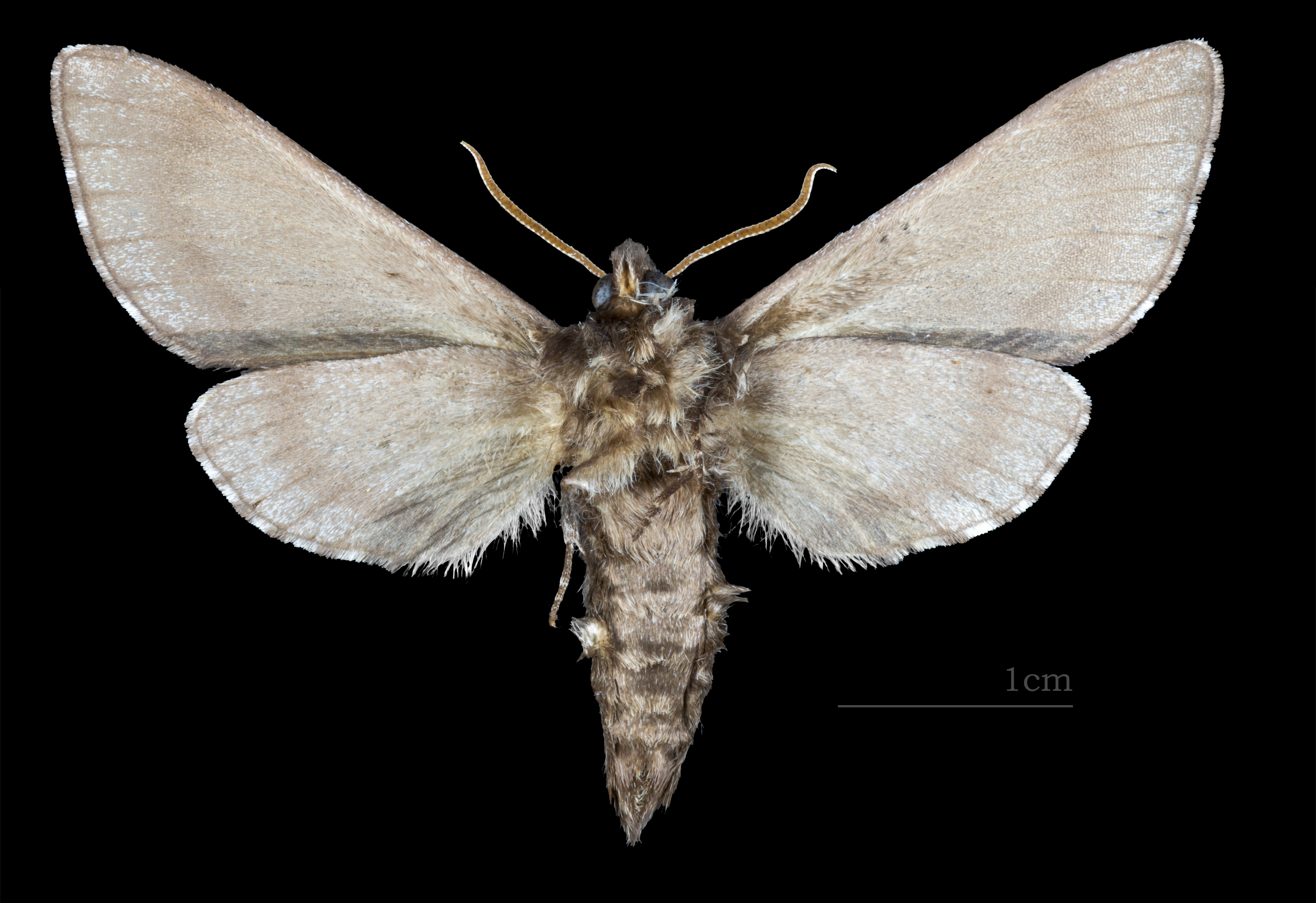 Northern Pine Sphinx - △ Ventral side